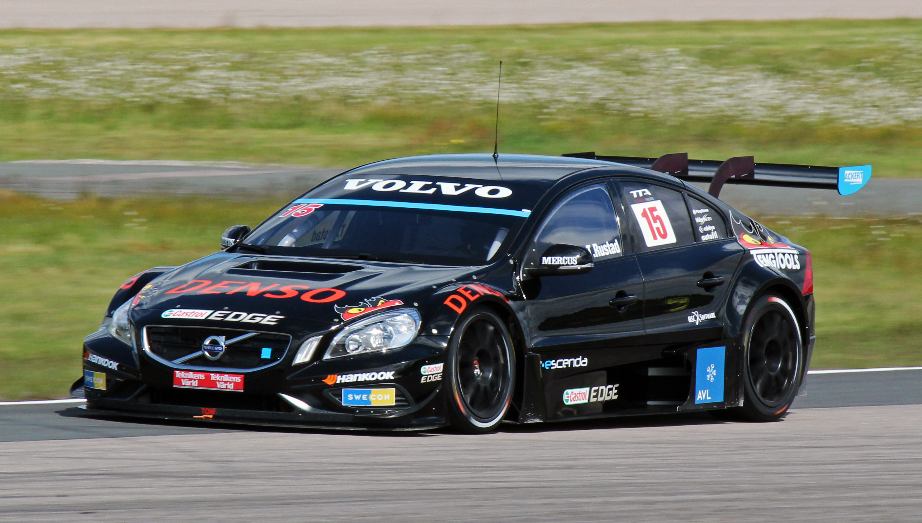 Tommy Rustad in his Volvo S60 Solution-F for Volvo Polestar Black R (Polestar Racing) in TTA – Racing Elite League at Anderstorp Raceway in 2012.